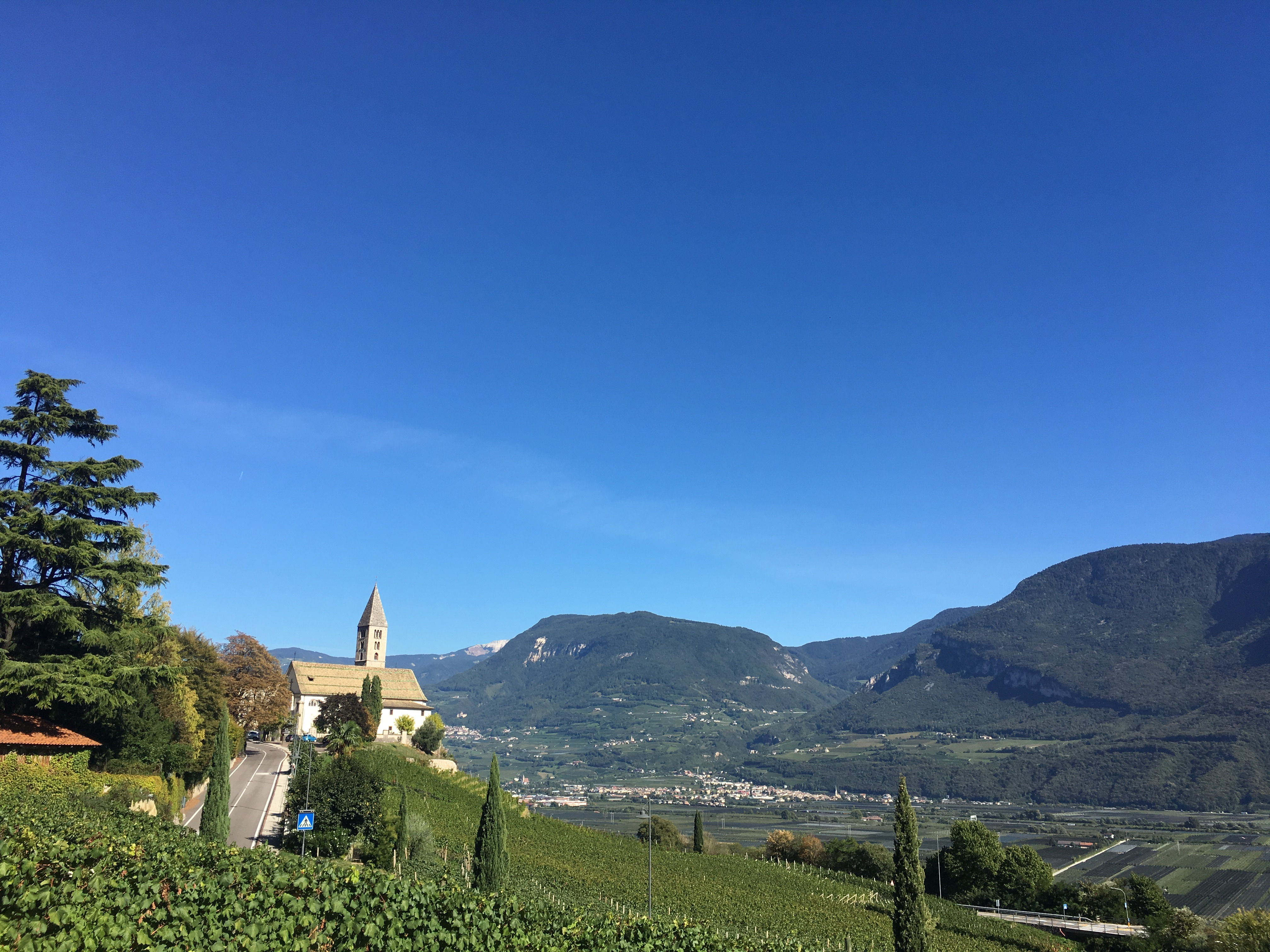 Pfarrkirche St. Vigilius Kurtatsch